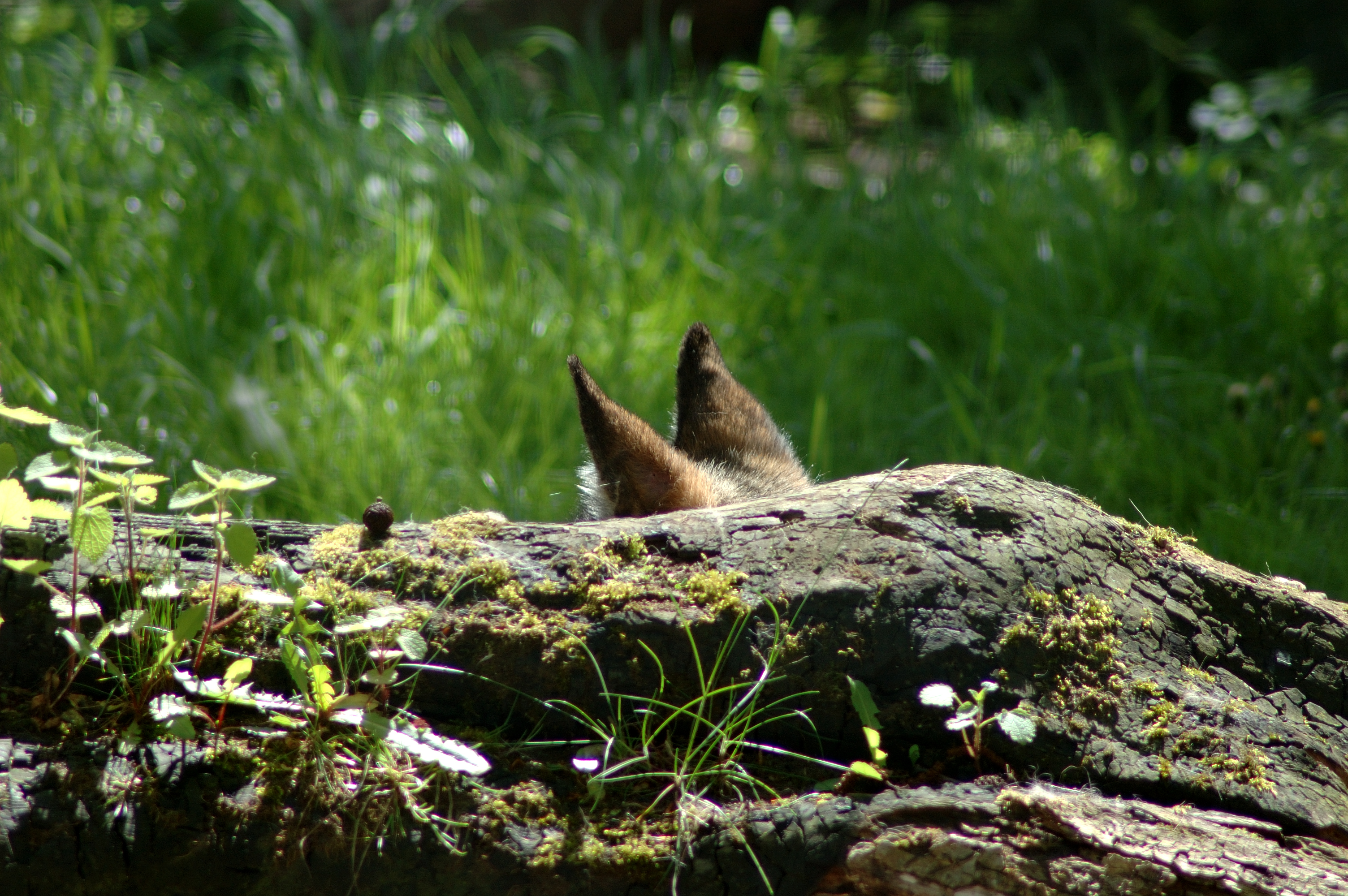 Grey Wolf Ears